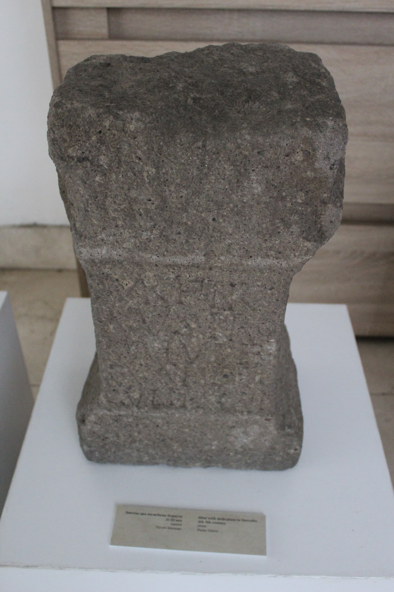 Altar with dedication to Hercules, 2th-3th century. Stone. Pusto Silovo. Srpski (latinica): Zavetna ara posvećena Herkulu, II-III vek. Kamen. Pusto Šilovo.